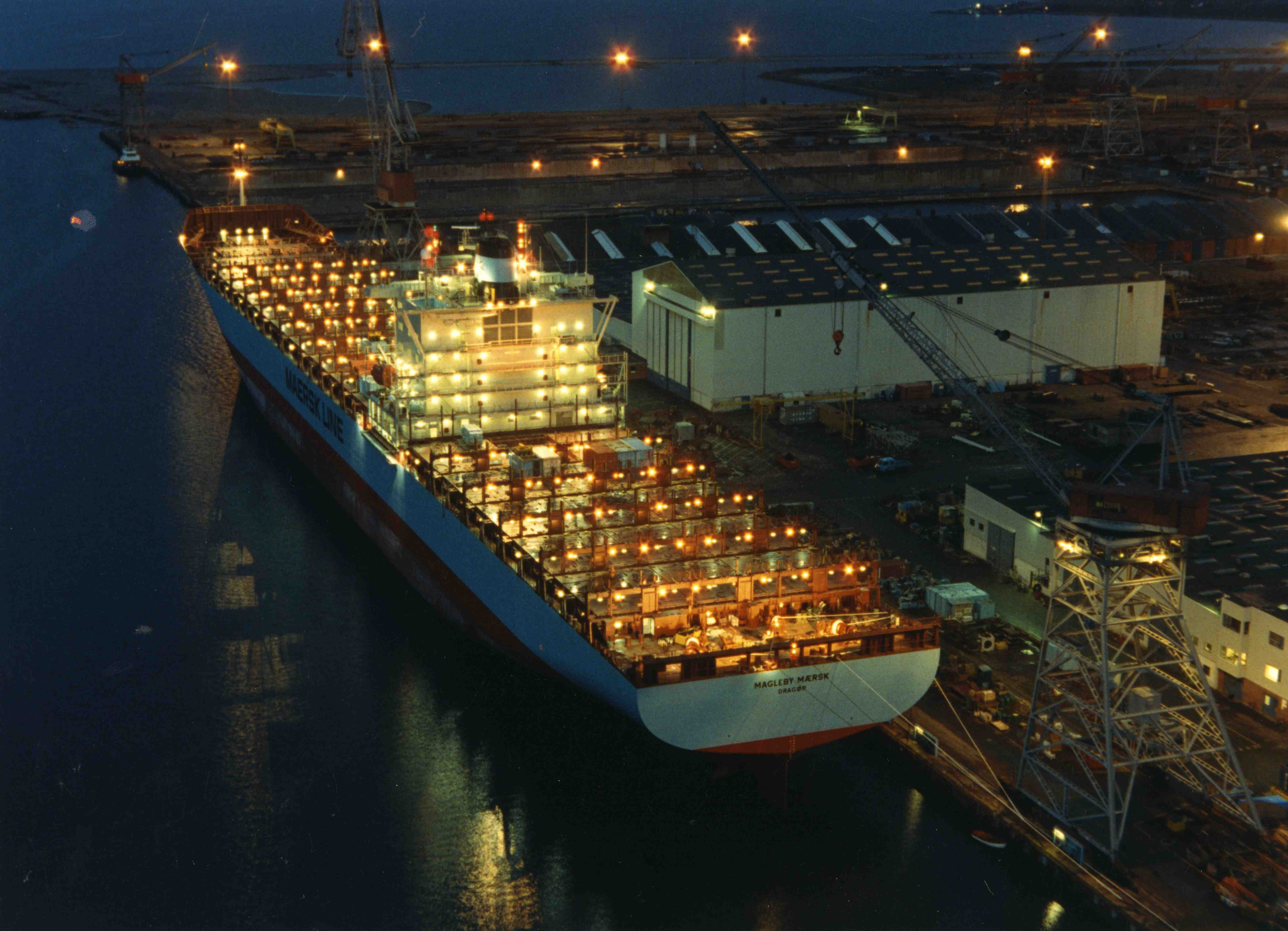 Magleby Mærsk leaving the shipyard in 1990